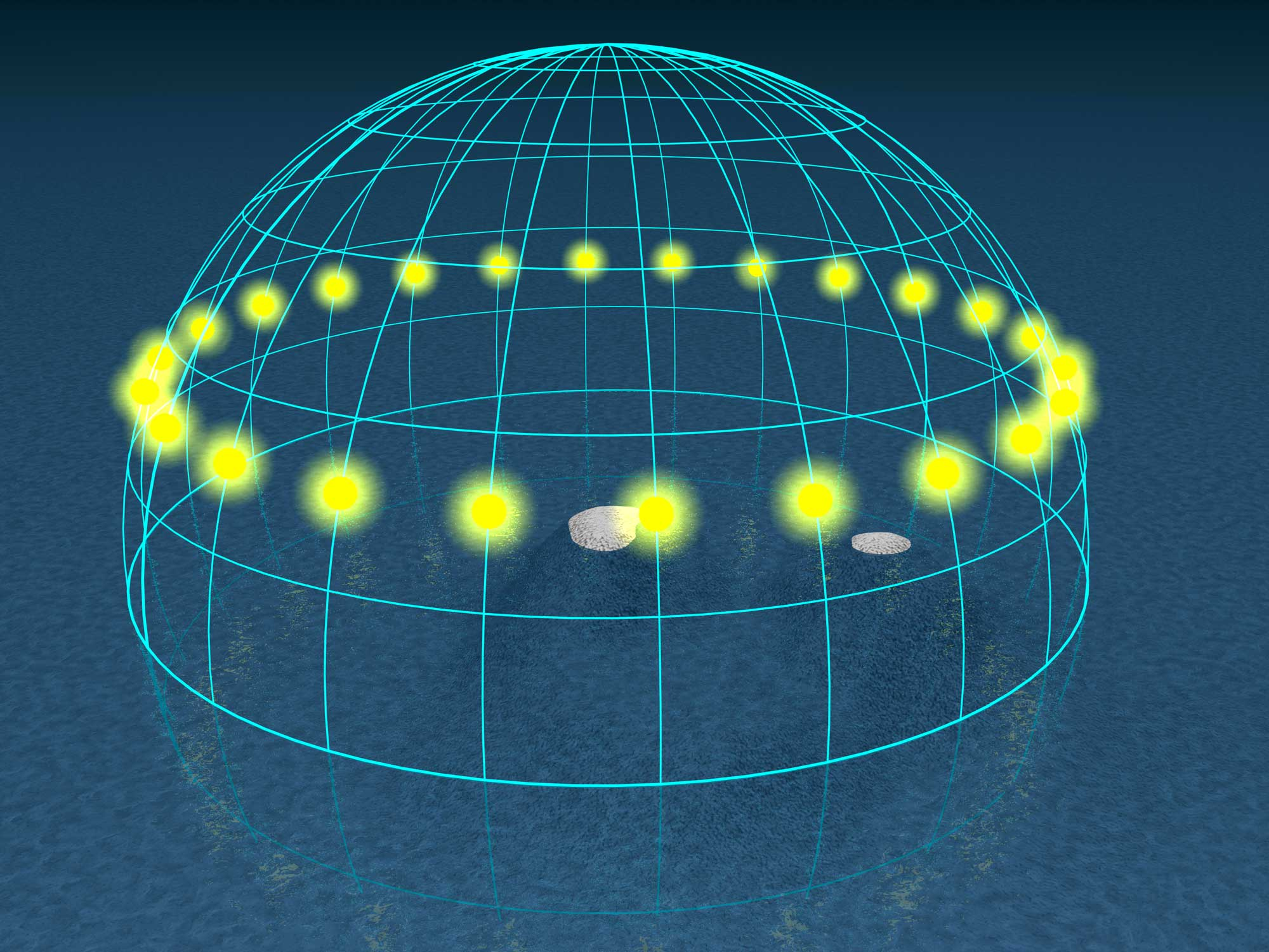 The day arc of the Sun, every hour, during the summer solstice as seen on the celestial dome, from the pole.